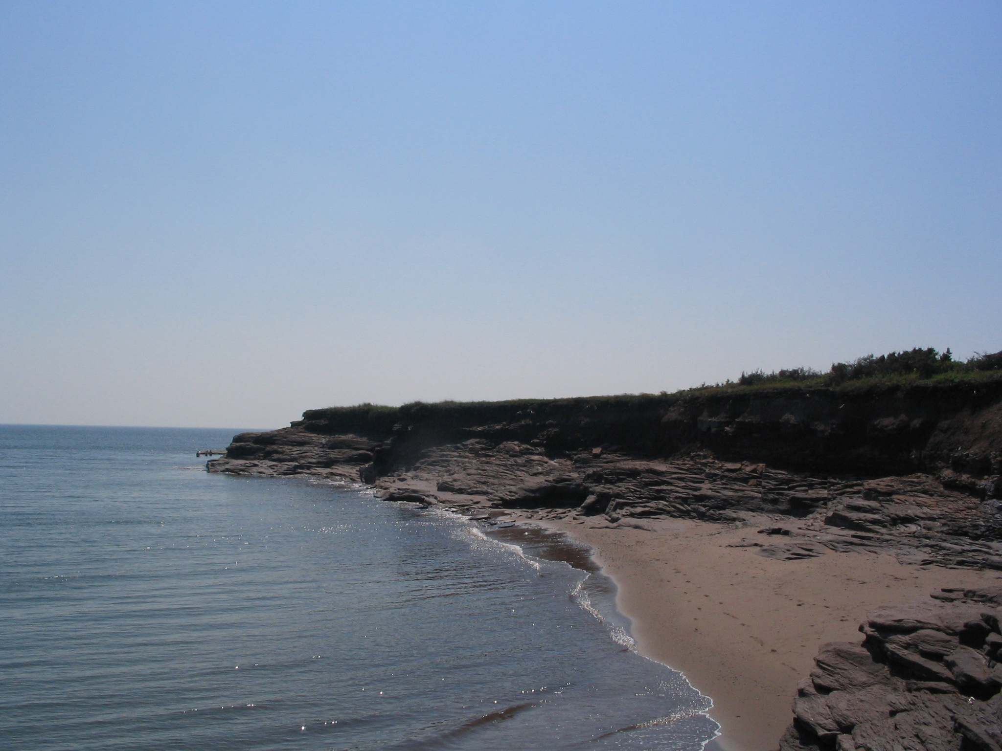 Cap-Bateau, New Brunswick